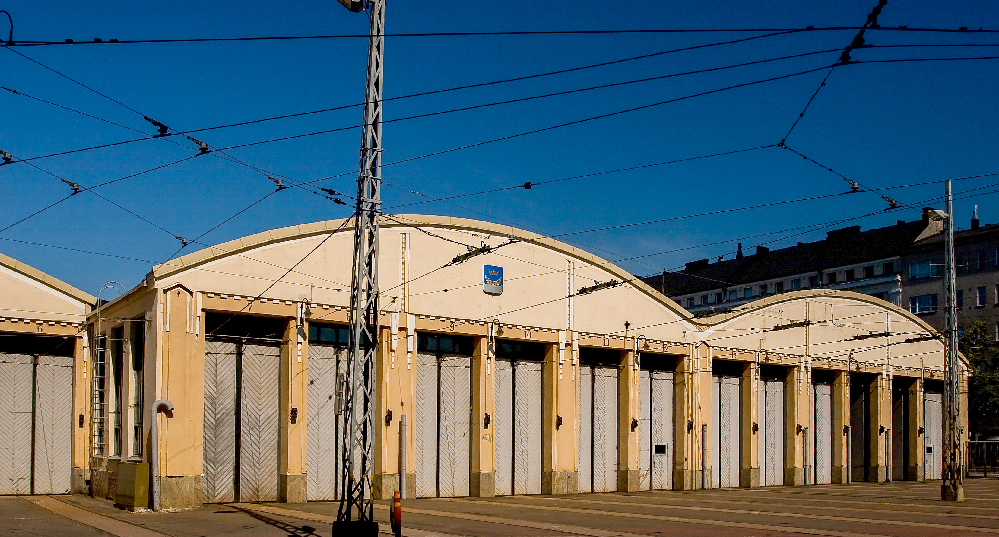 Old Helsinki tram depot – still in use – located at Töölö, Helsinki, Finland